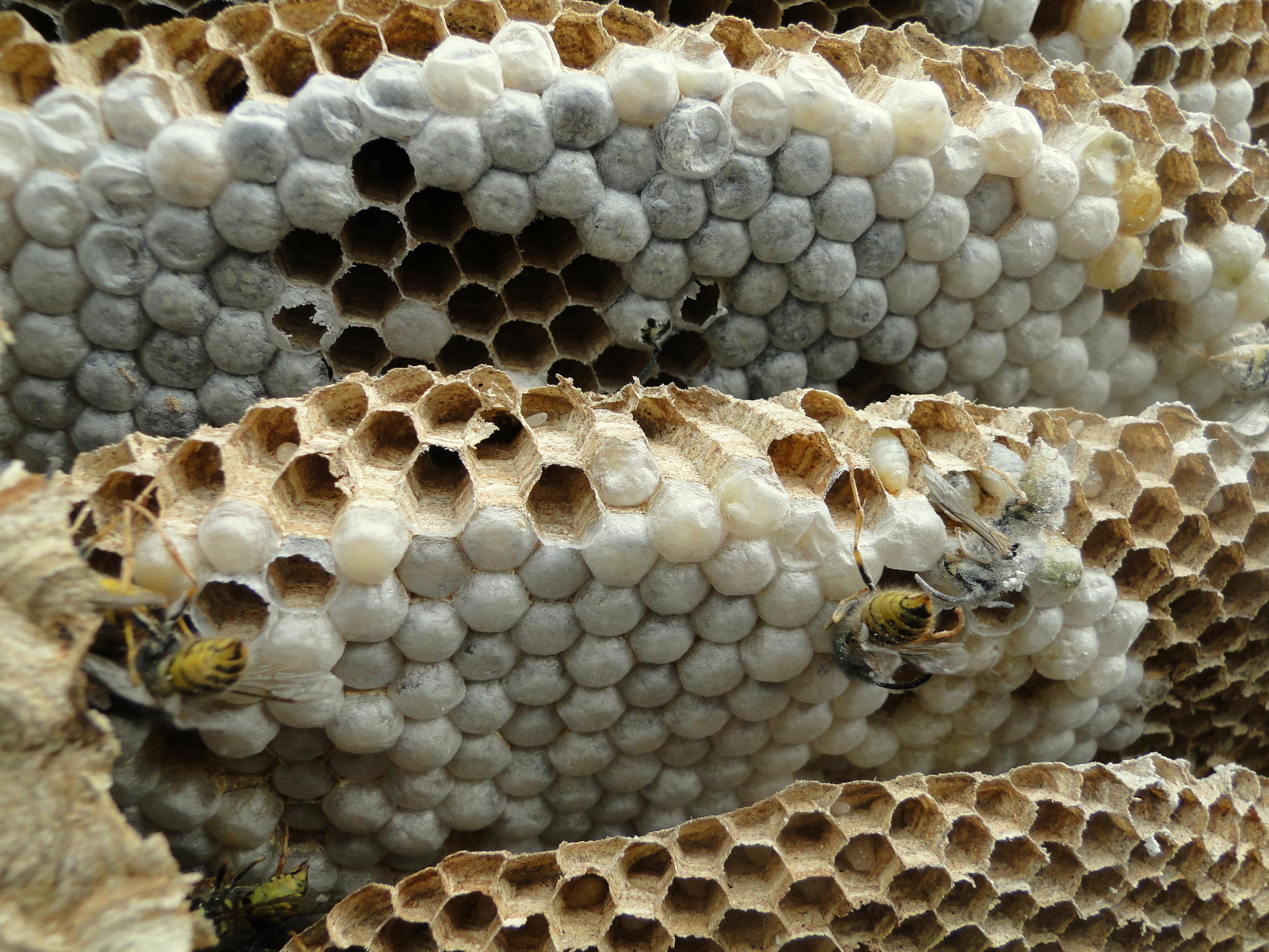 Common wasp nest (Vespula vulgaris). The front of the nest has been removed. Note the hexagonal cells, some of which still contain larvae.